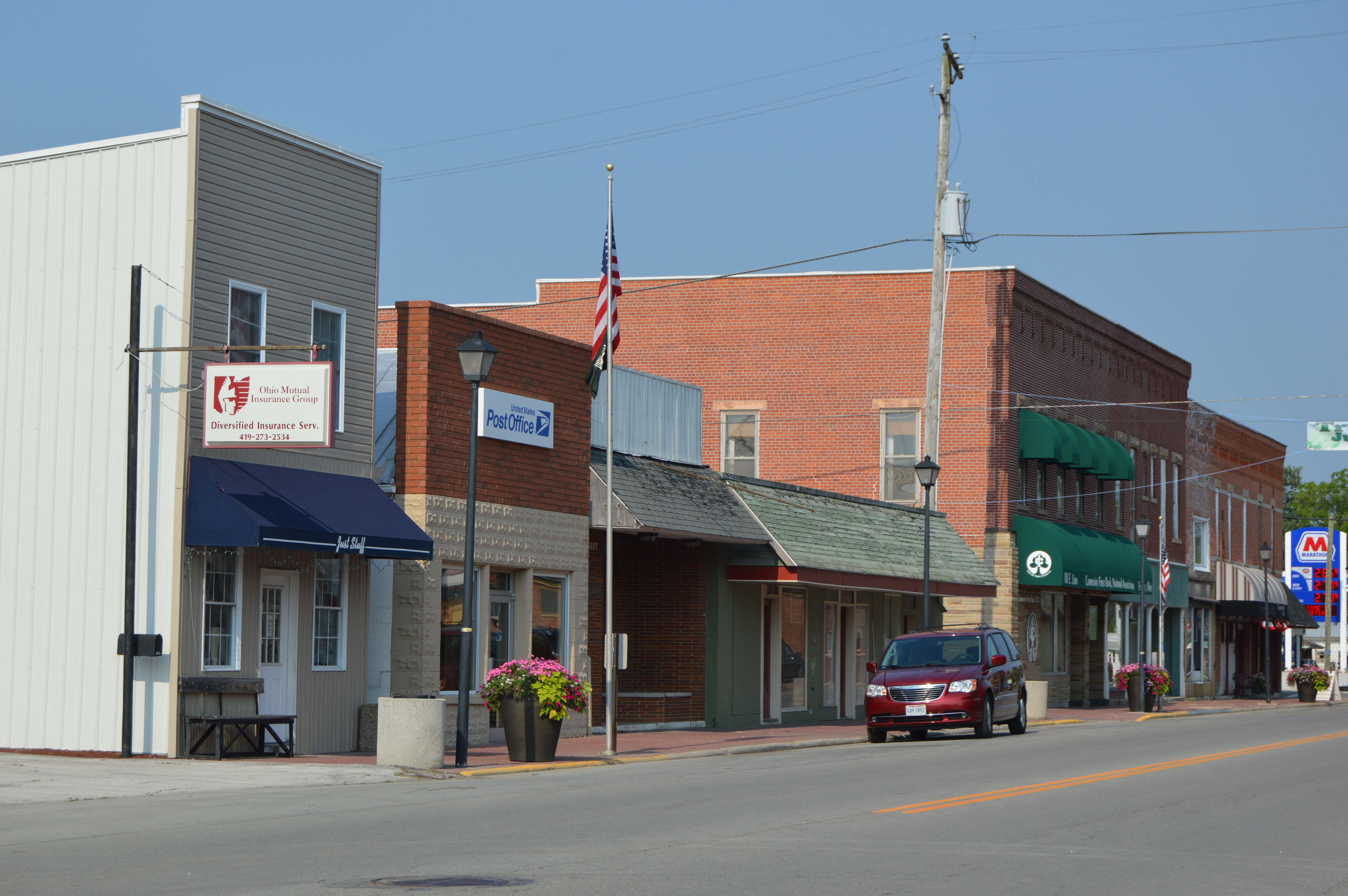 Buildings on the northern side of Lima Street (State Route 37) west of the Gormley Street intersection in Forest, Ohio, United States.